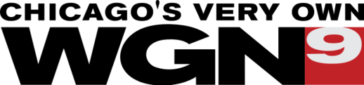 Station logo for WGN-TV from 2002 to 2017, red variant